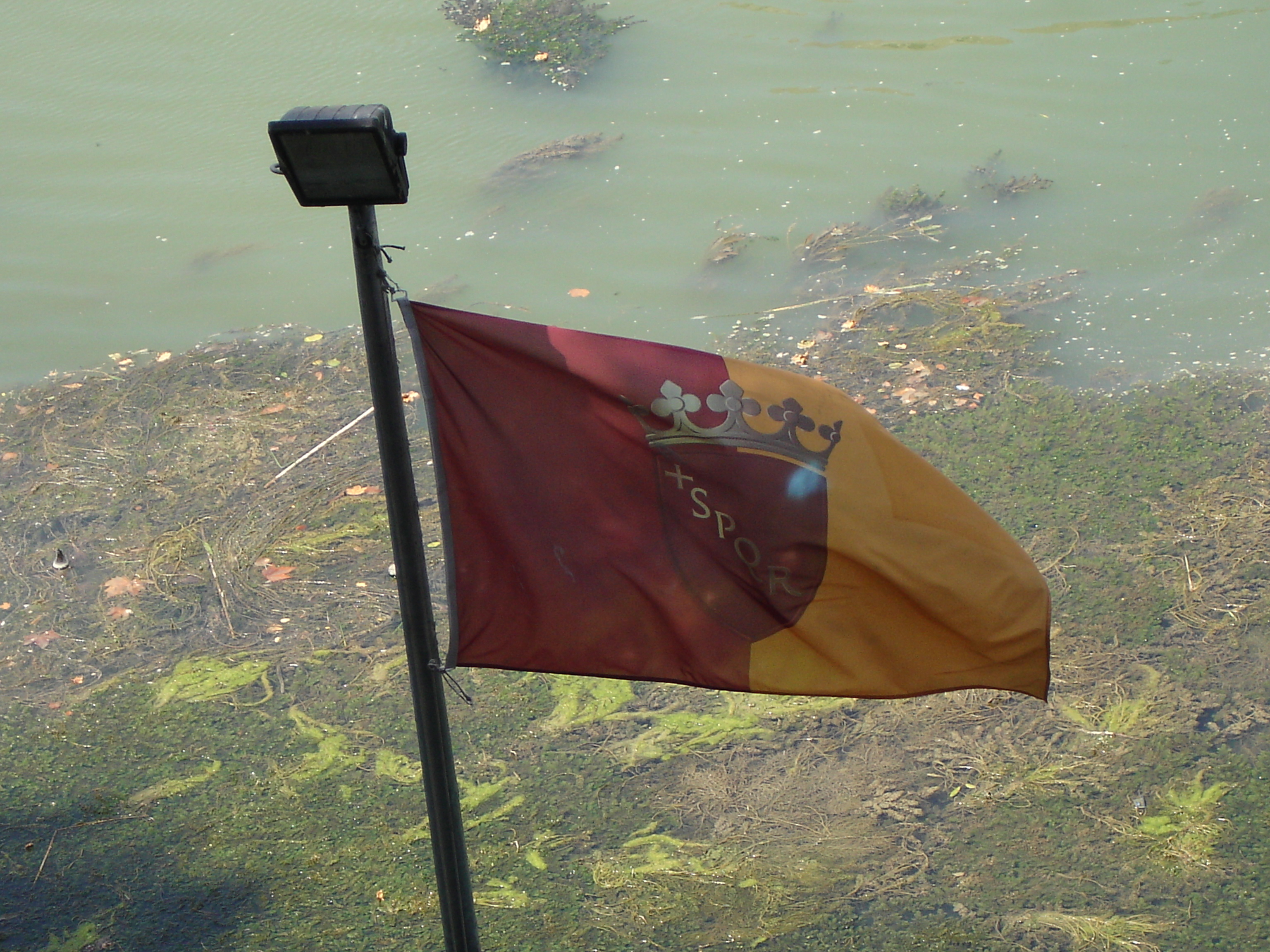 NOT official flag